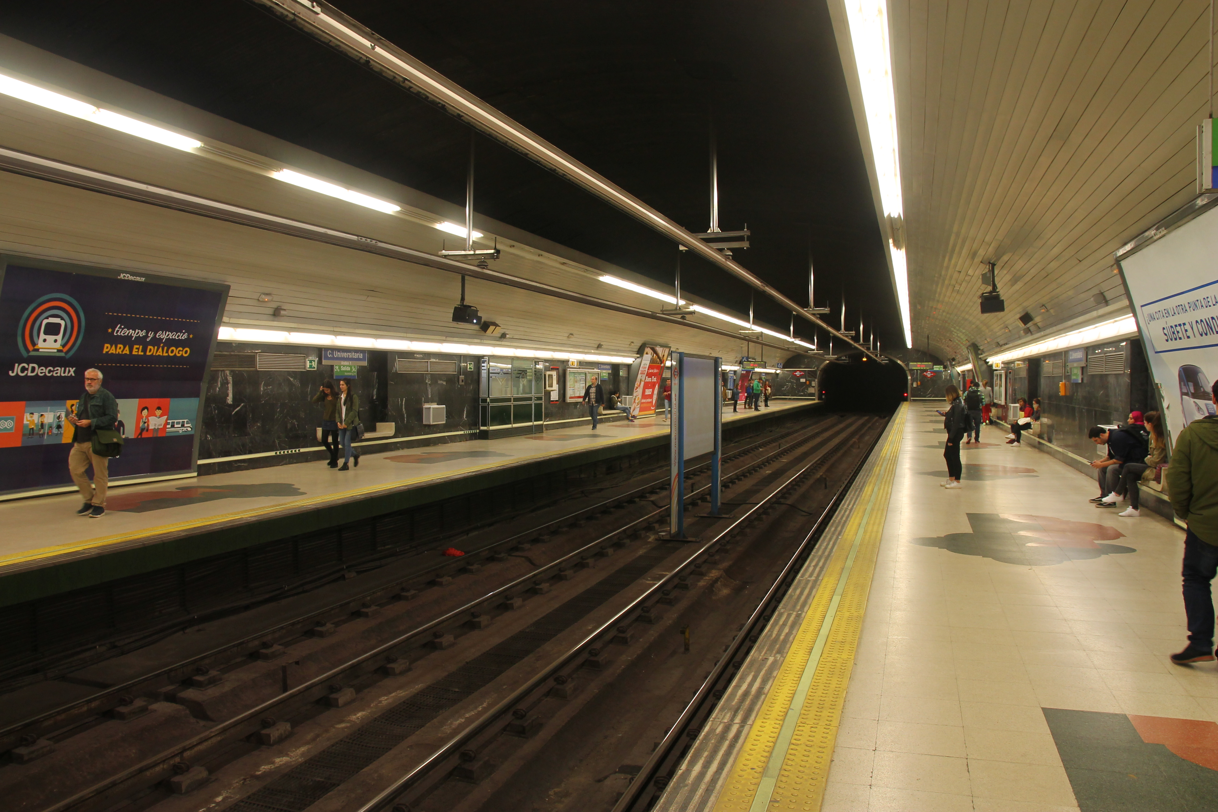 Estación de Ciudad Universitaria